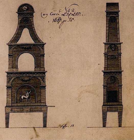 Design for heating stove with centaur decoration. Model No. 2 in the 1811 cataloque "Tegninger af Næs Iernverks Kakelovne ved Henrik Meldahl".